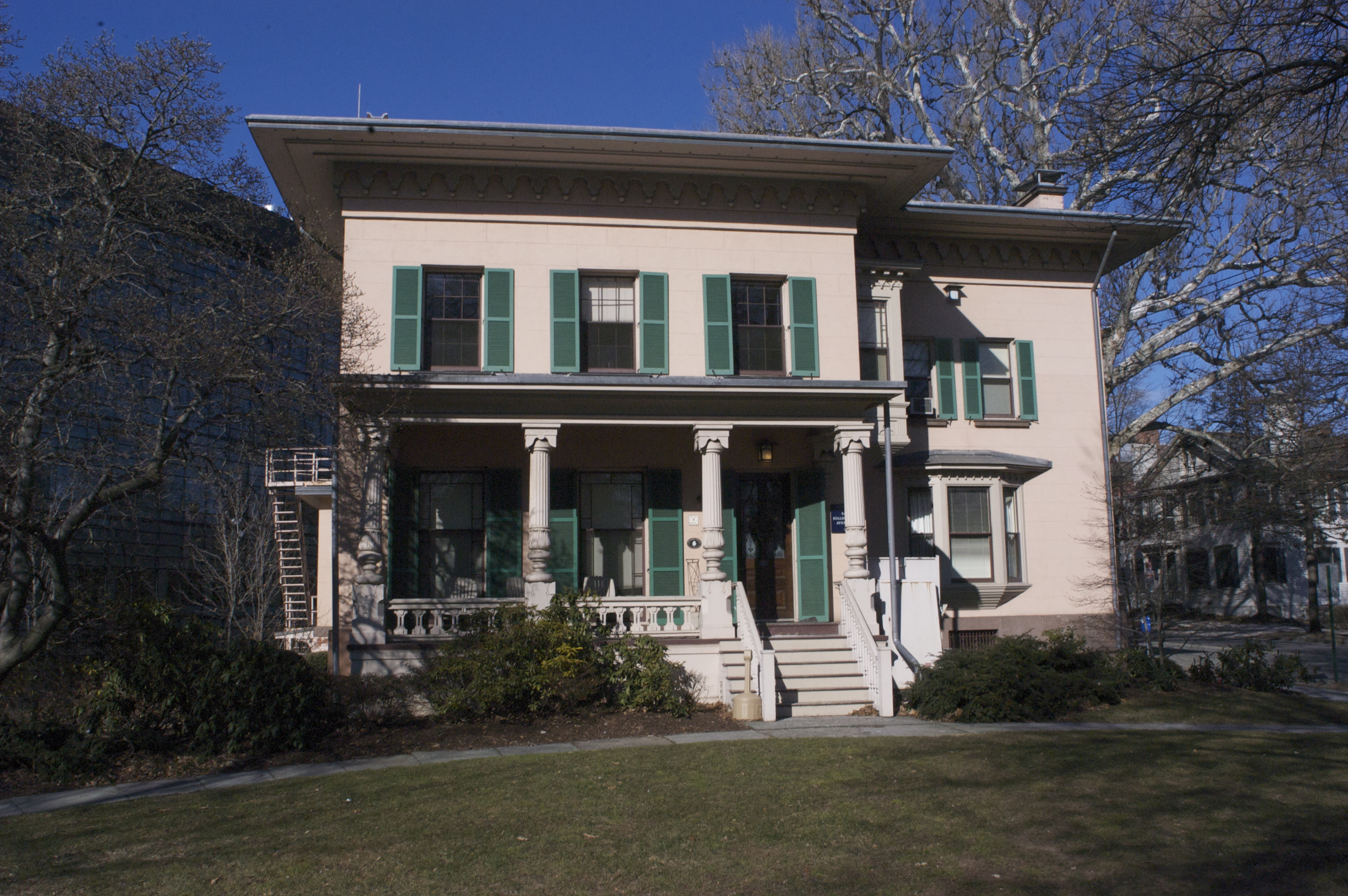 James Dwight Dana House, New Haven CT